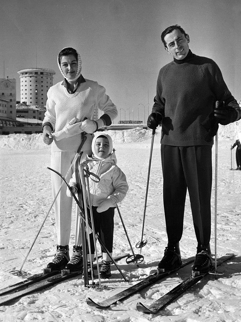 Italian cyclist Fausto Coppi posing on a ski slope of Sestriere, with his son Angelo Fausto Giulia Occhini, the White Lady. Sestriere, January 1959.